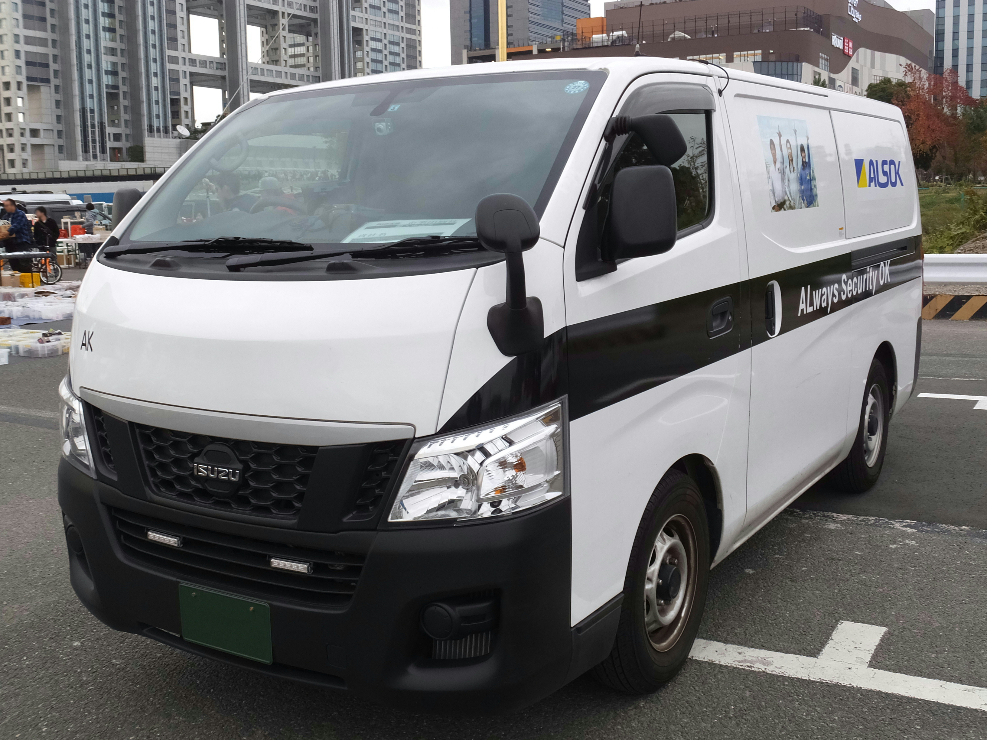 ISUZU, COMO